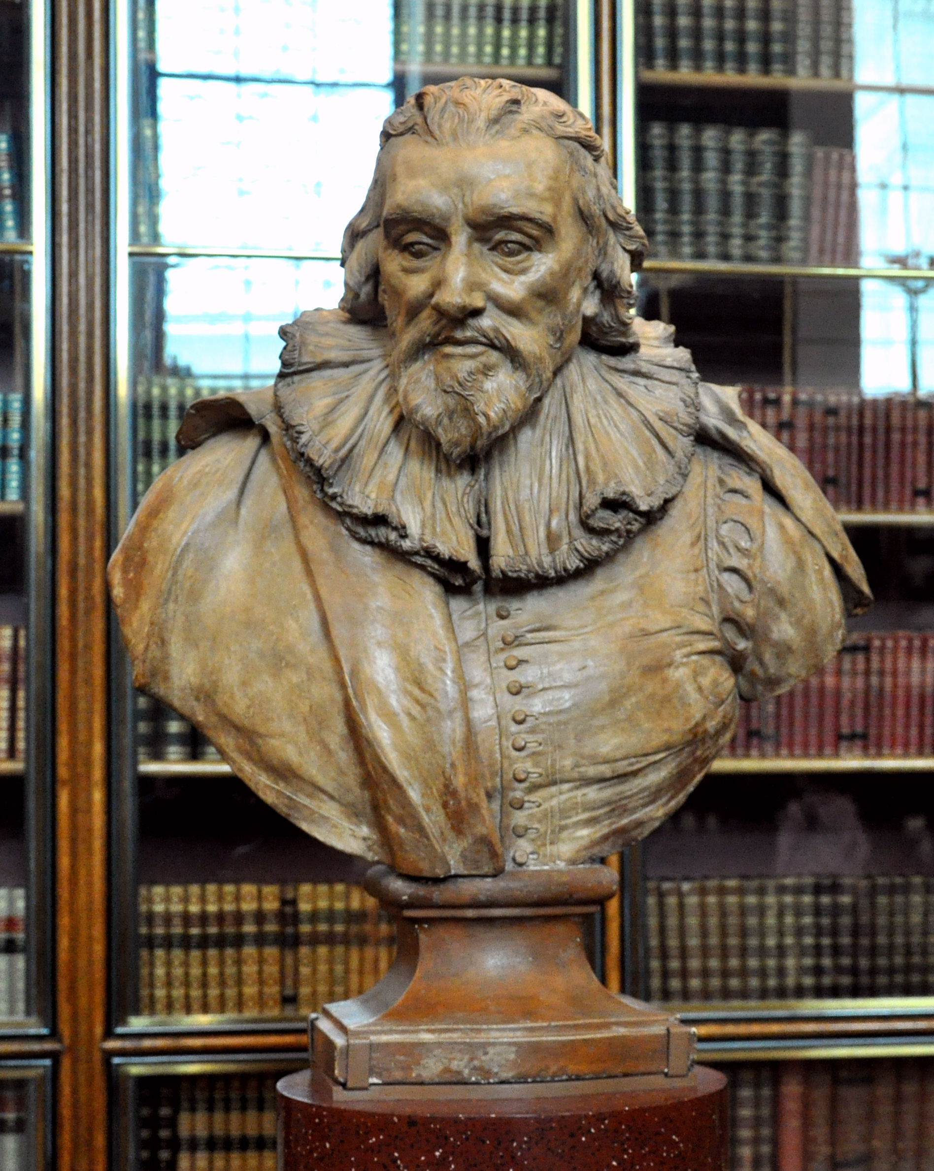 British Museum reference1924,0412.1Detailed descriptionBust of Robert Bruce Cotton (1571-1631), by Louis-François Roubiliac (1702-1762), terracotta. Department: Prehistory and EuropeLocationRoom 1